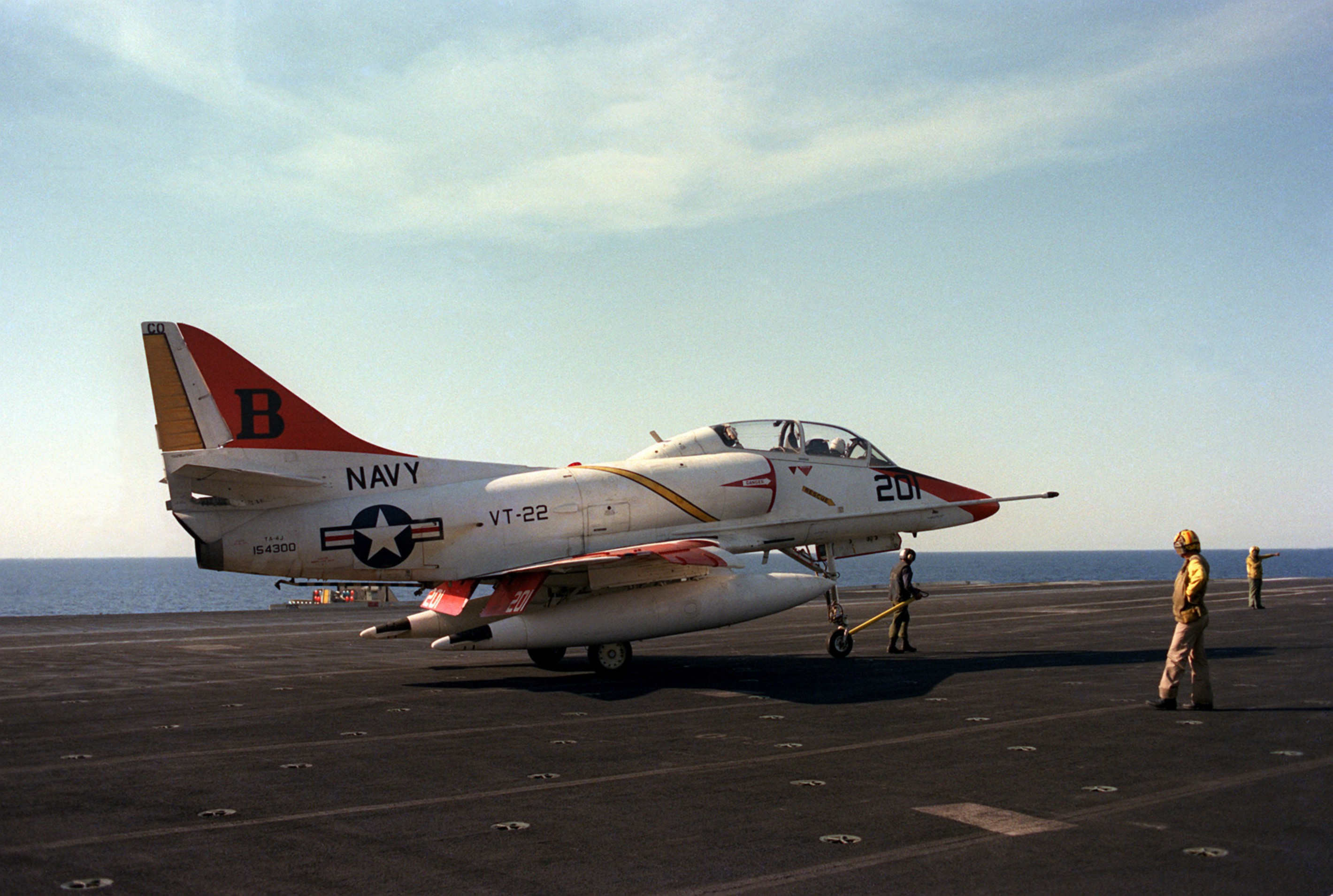 A U.S. Navy McDonnell Douglas TA-4J Skyhawk aircraft (BuNo 154300) from training squadron VT-22 on the flight deck of the aircraft carrier USS Kitty Hawk (CV-63) on 1 October 1983.